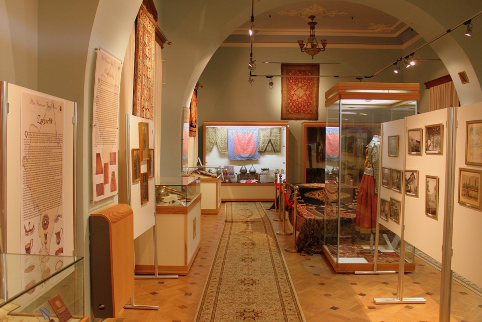 Azerbaijan history museum